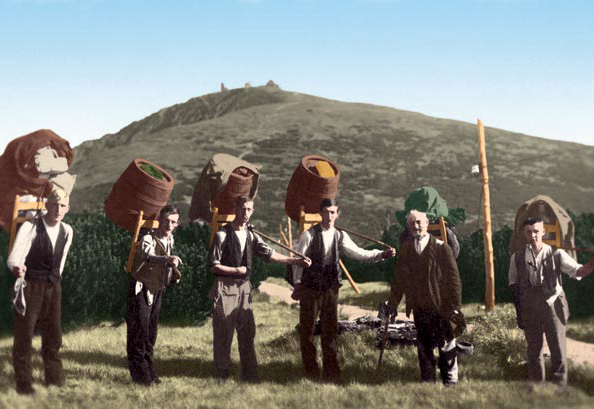 Koppenträger (mountain top bearer) from Groß Aupa (Velka Upa) in the Bohemian Giant Mountains (Krkonoše), ca. 1920. Picture shows Stefan Mitlöhner, Johann Hofer Jr., Emil Hofer, Robert Hofer and Johann Hofer Sr.